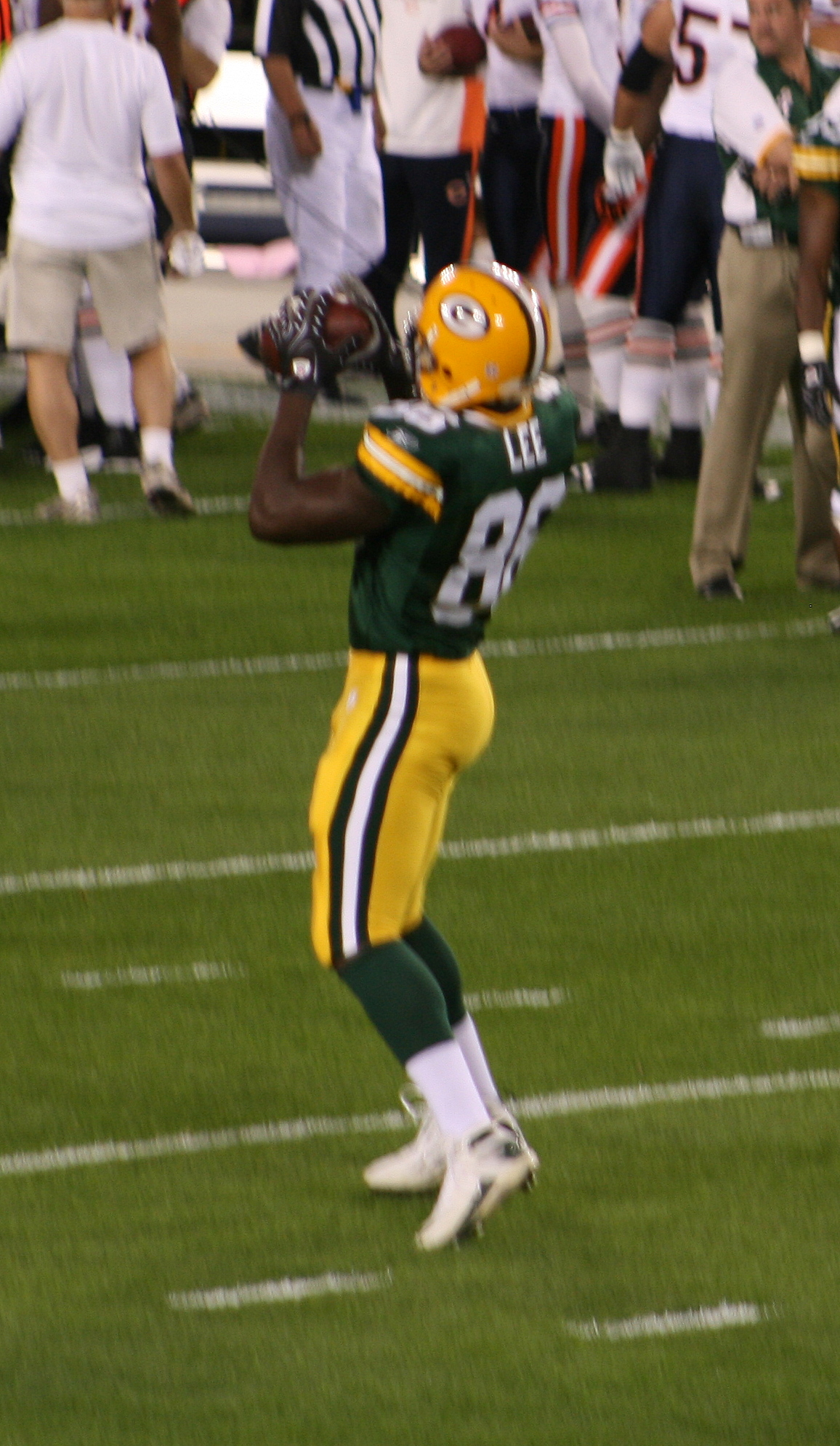 Donald Lee during pre-game warm-ups.